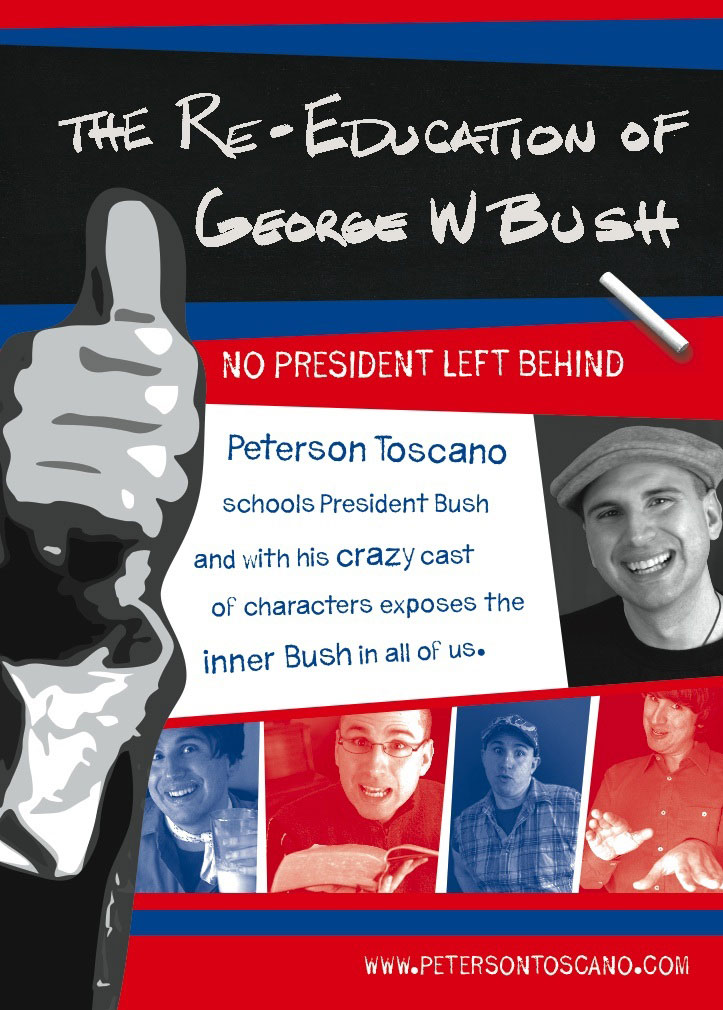 Poster for the play The Re-Education of George W. Bush from Peterson Toscano